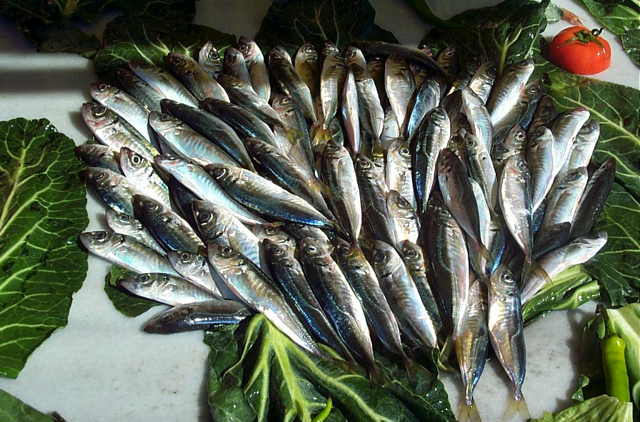 Fishes in market. Istanbul